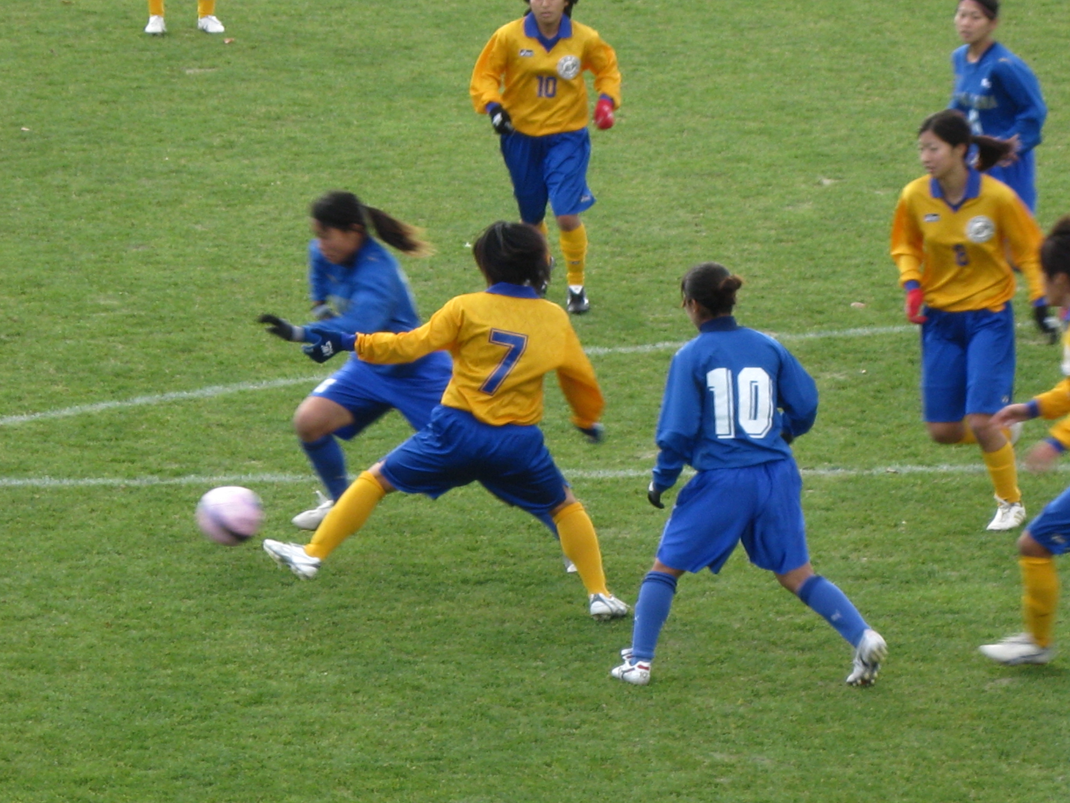 Kanagawa Univ. LFC vs. Osaka Kyoiku Univ. LFC, the group league match of All Japan Women's Intercollegeate Football Championship (J.Village, November 29, 2009)